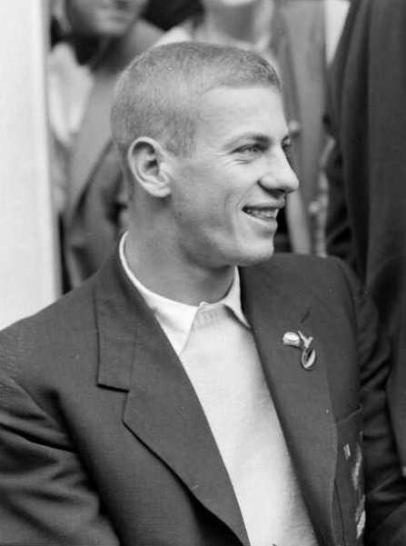 Photograph taken for the Evening Post newspaper of Wellington by an unidentified staff photographer.